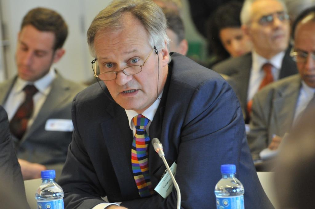 Christian Leffler, Deputy Director General, European Commission Directorate General for Development and Relations with ACP States